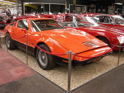 Bricklin SV-1